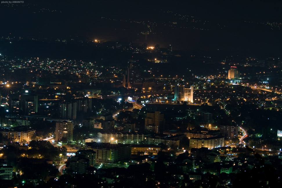 A night shot of Skopje, Republic of Macedonia.